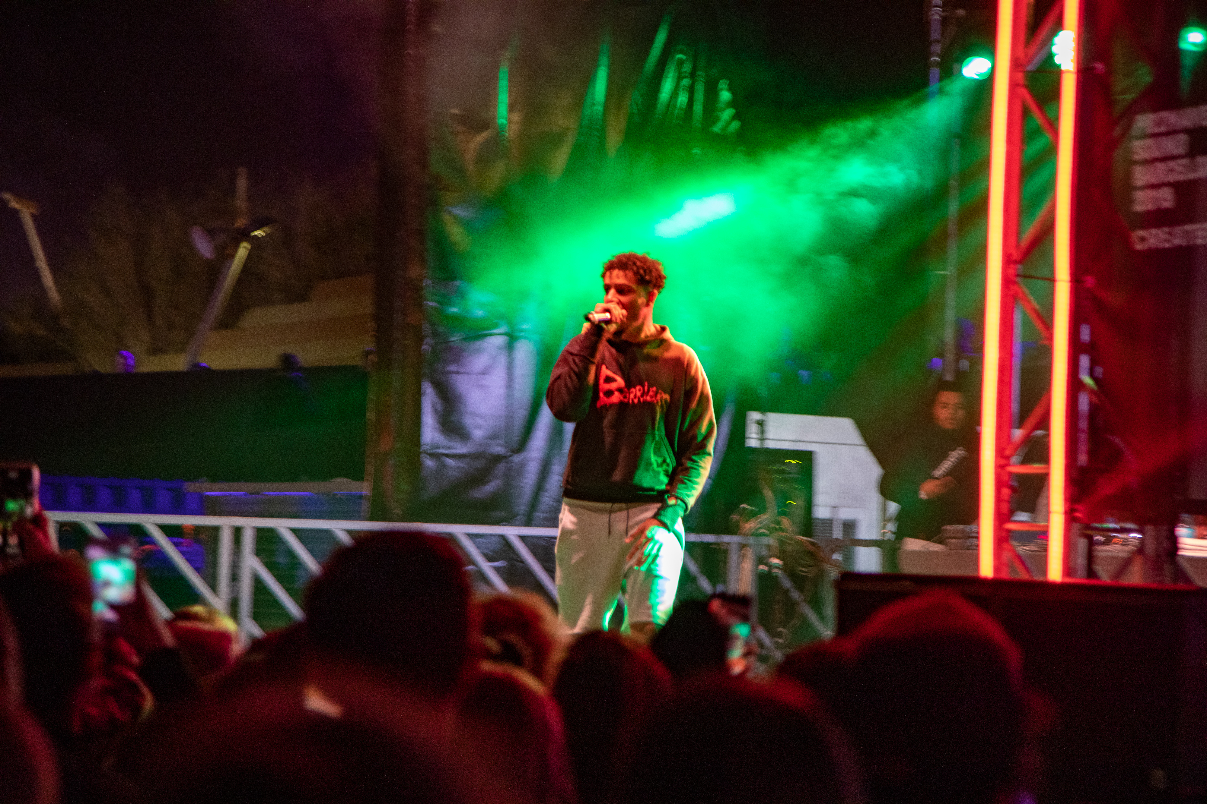 AJ Tracey performing at Primavera Sound.